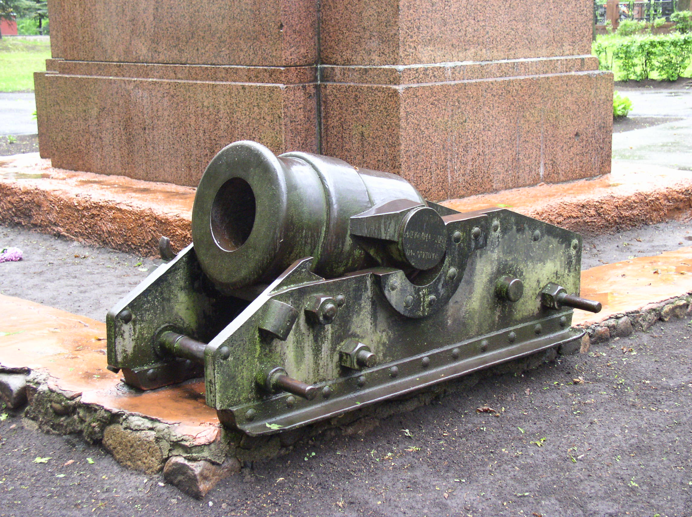 Monument to heroes of Patriotic War of 1812. Vitsebsk, Belarus.